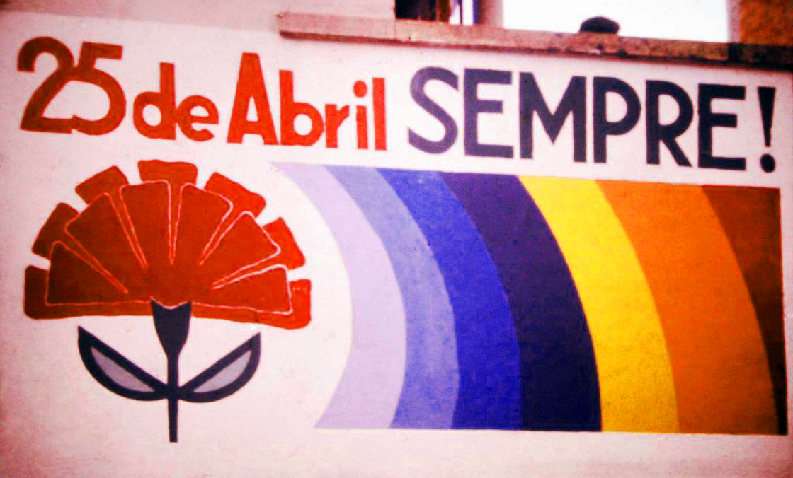 April 25 always